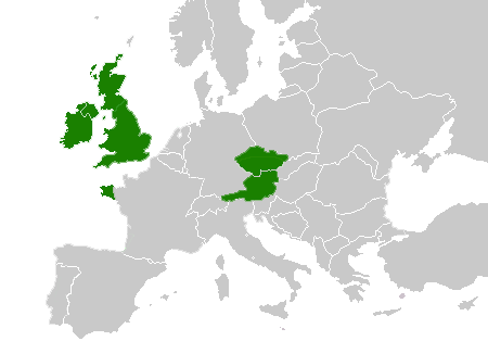 map of Europe with Great Britain, Ireland, the Czech Republic, Austria and (the western part of) Brittany highlighted. Intended to illustrate a high prevalence of the G551D mutation of the Cystic fibrosis transmembrane conductance regulator (CFTR) gene in these regions.